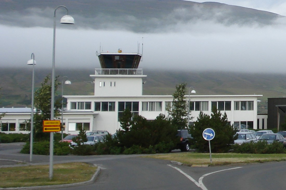 Airport of Akureyri in Iceland